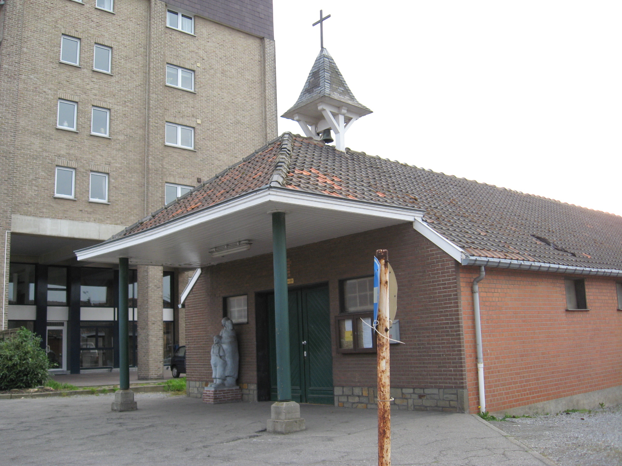 Church of Saints Vincent and Barbara in Ans, Liège, Belgium